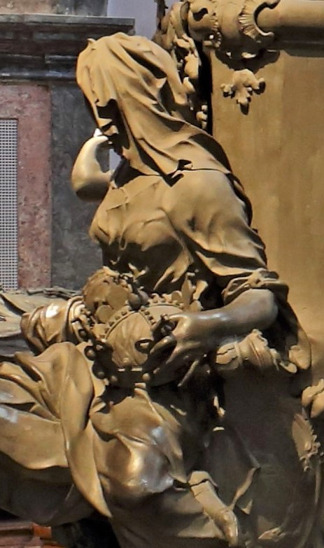 The statue of mourning Czechia (alegory of Bohemia) who is holding the Crown of St. Wenceslas, on the tomb of Maria Theresia, Queen of Bohemia, in Imperial Crypt in Vienna.